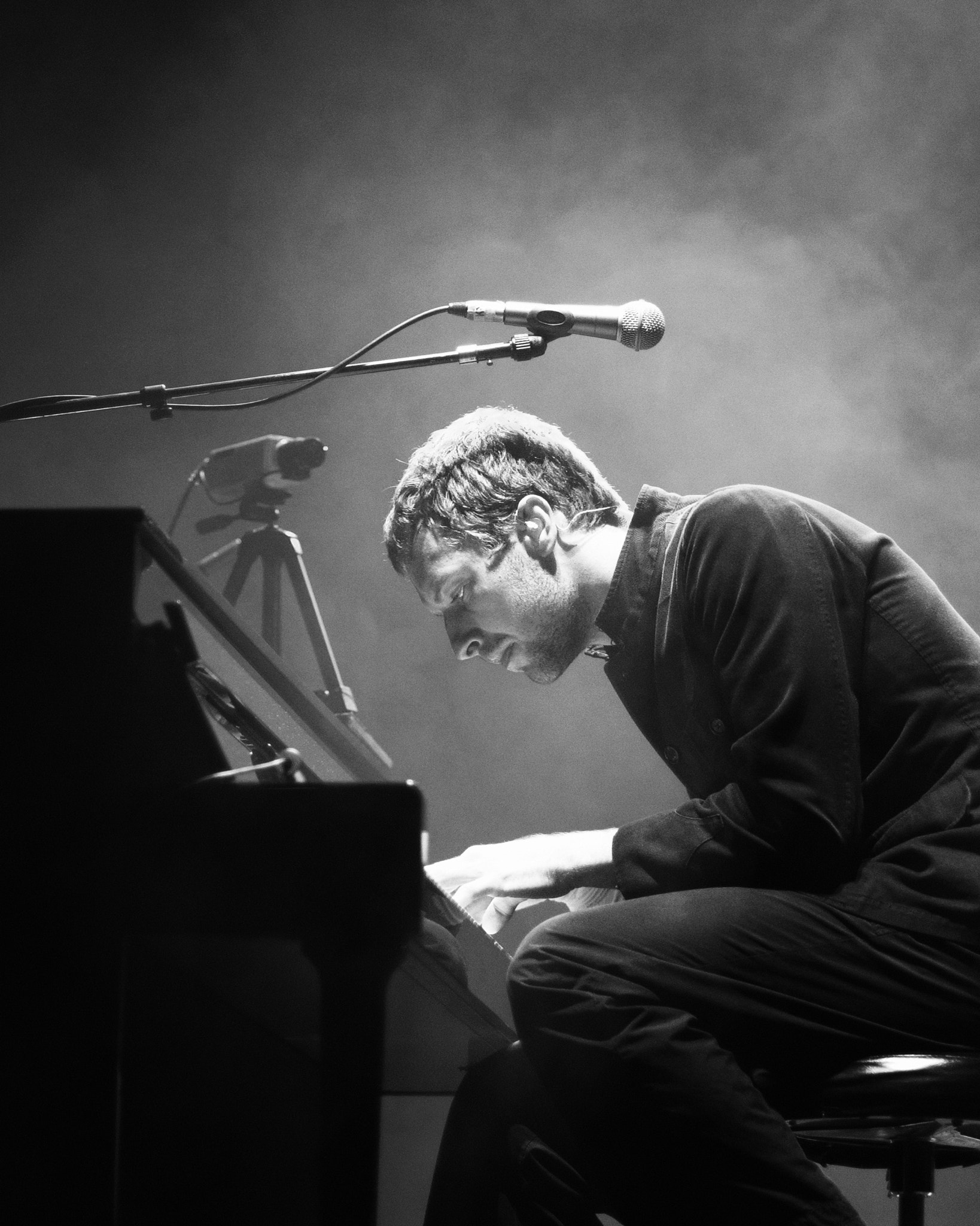 500px provided description: Chris Martin [#show ,#rock ,#concert ,#music ,#live ,#performance ,#stage ,#gig ,#band ,#musician ,#singer ,#coldplay ,#Chris Martin]